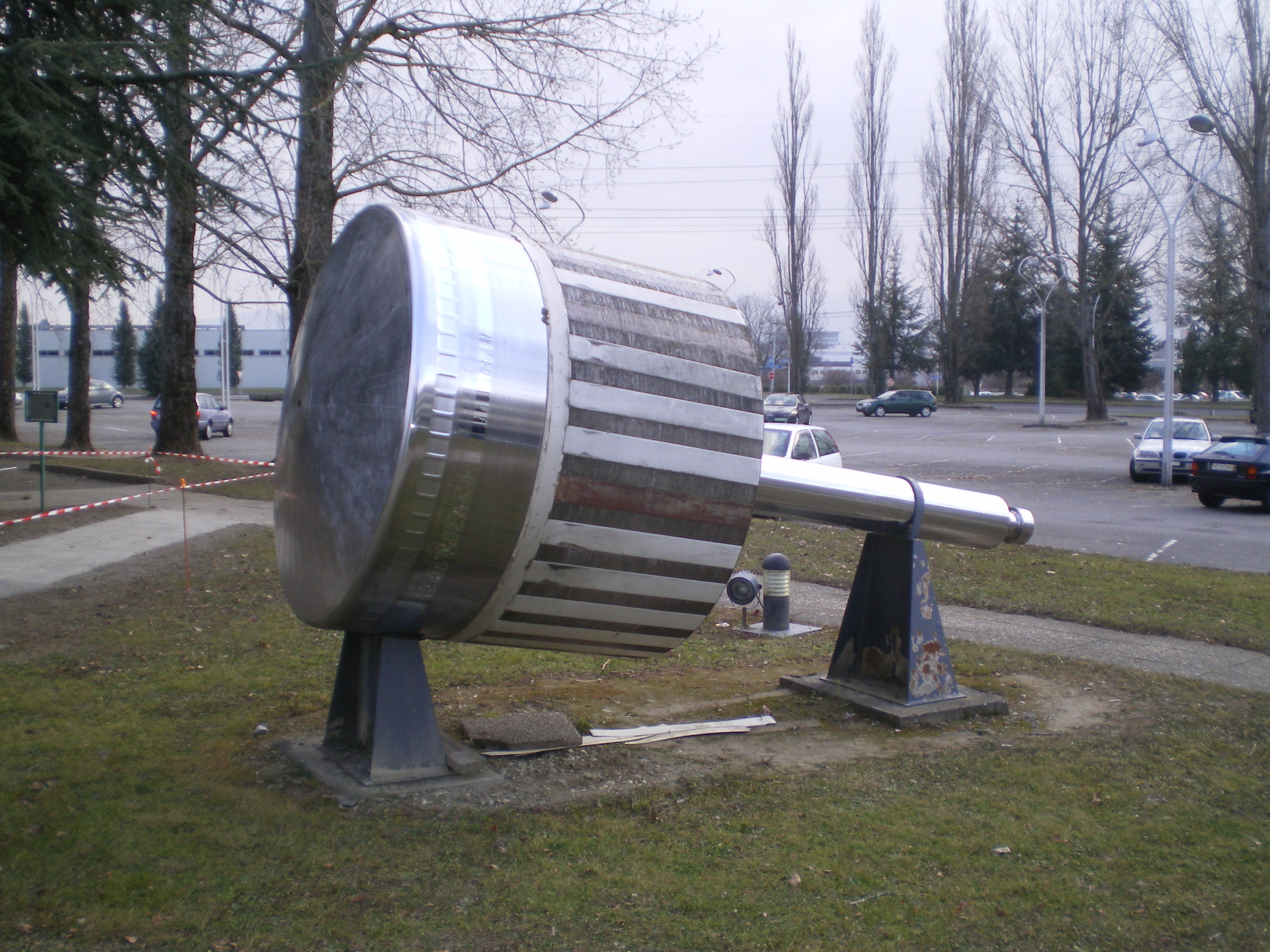 Piston-like component of the Big European Bubble Chamber, on display at CERN's Microcosm museum.